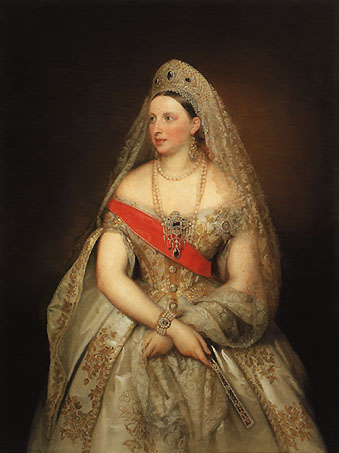 Portrait of Alexandra Petrovna of Oldenburg (1838-1900), Grand Duchess Alexandra Petrovna of Russia (1838–1900), née Princess of Oldenburg.